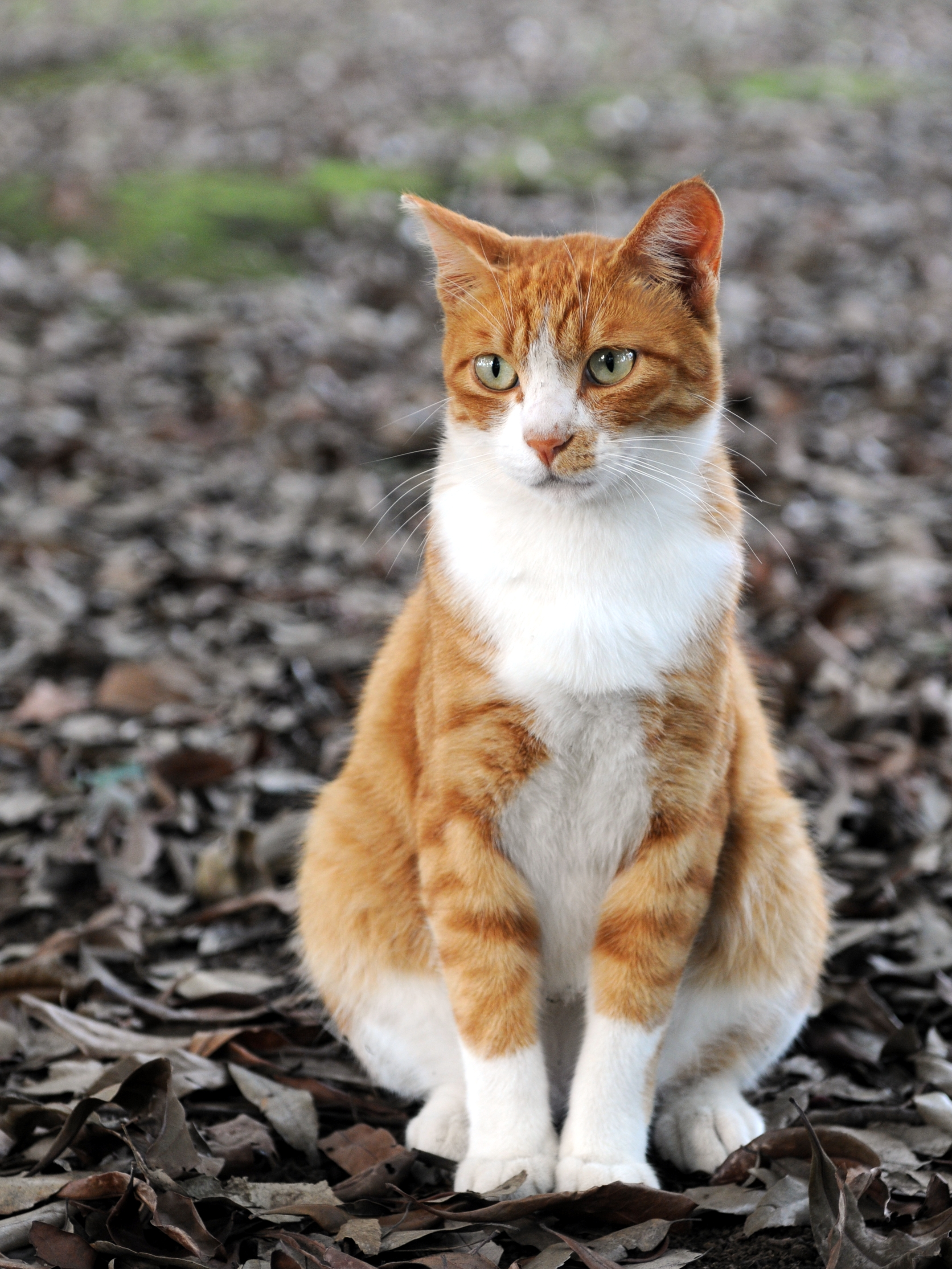 Orange and white tabby cat sitting on fallen leaves